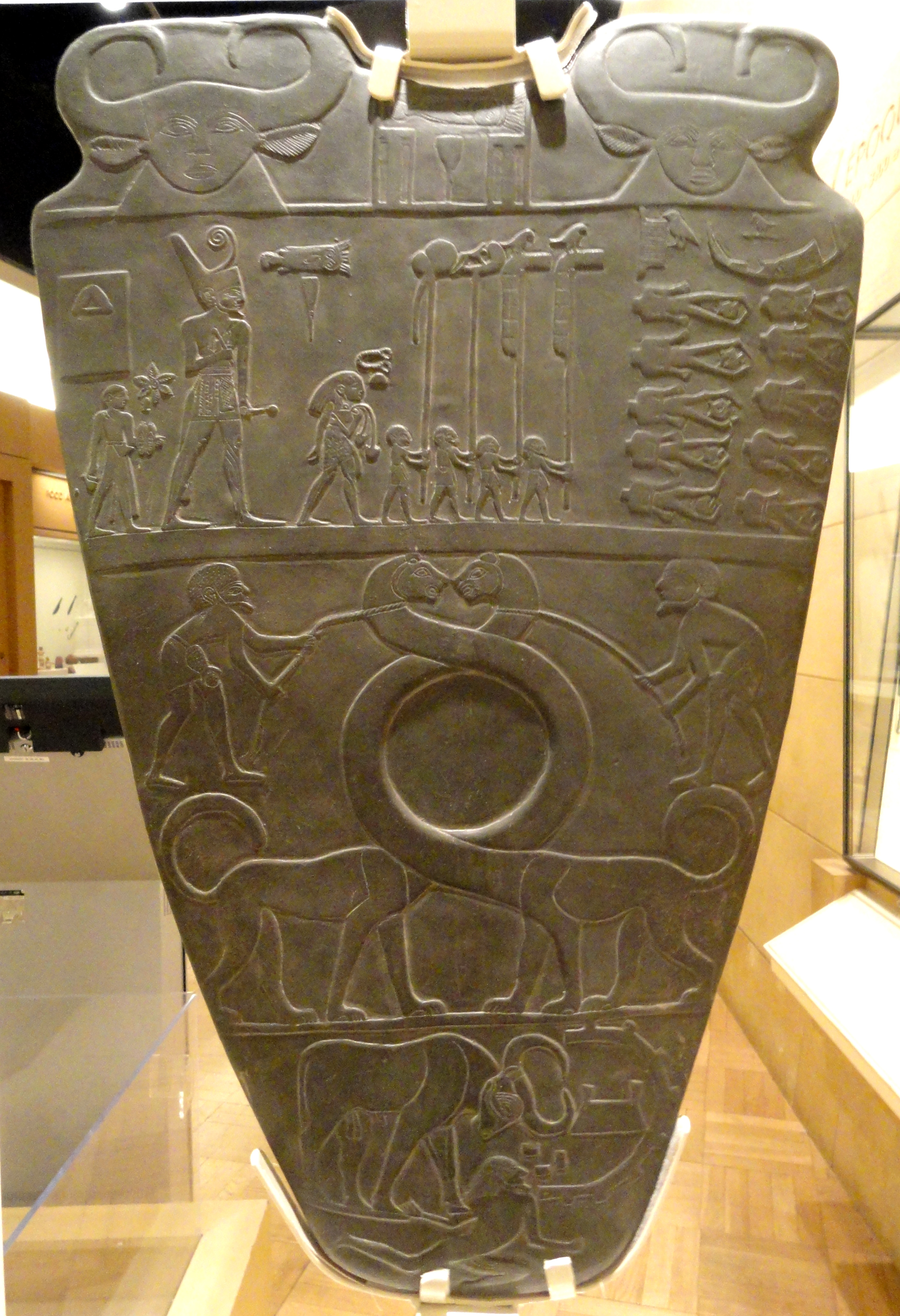 Exhibit in the Royal Ontario Museum, Toronto, Ontario, Canada. This exhibit is old enough so that it is in the public domain, and photography was permitted in the museum. I took this photograph and release it into the public domain.